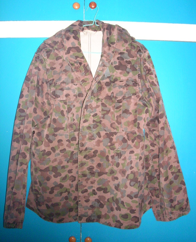 Austrian camouflage parka jacket (1957-1978)